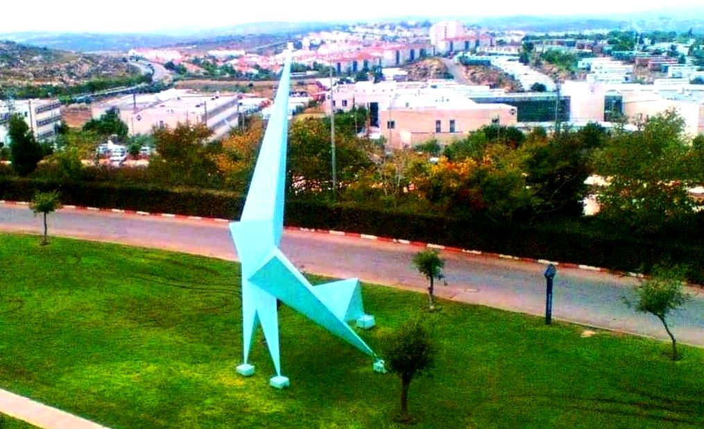 A statue near the library of the Ariel University Center. The town can be seen in the background